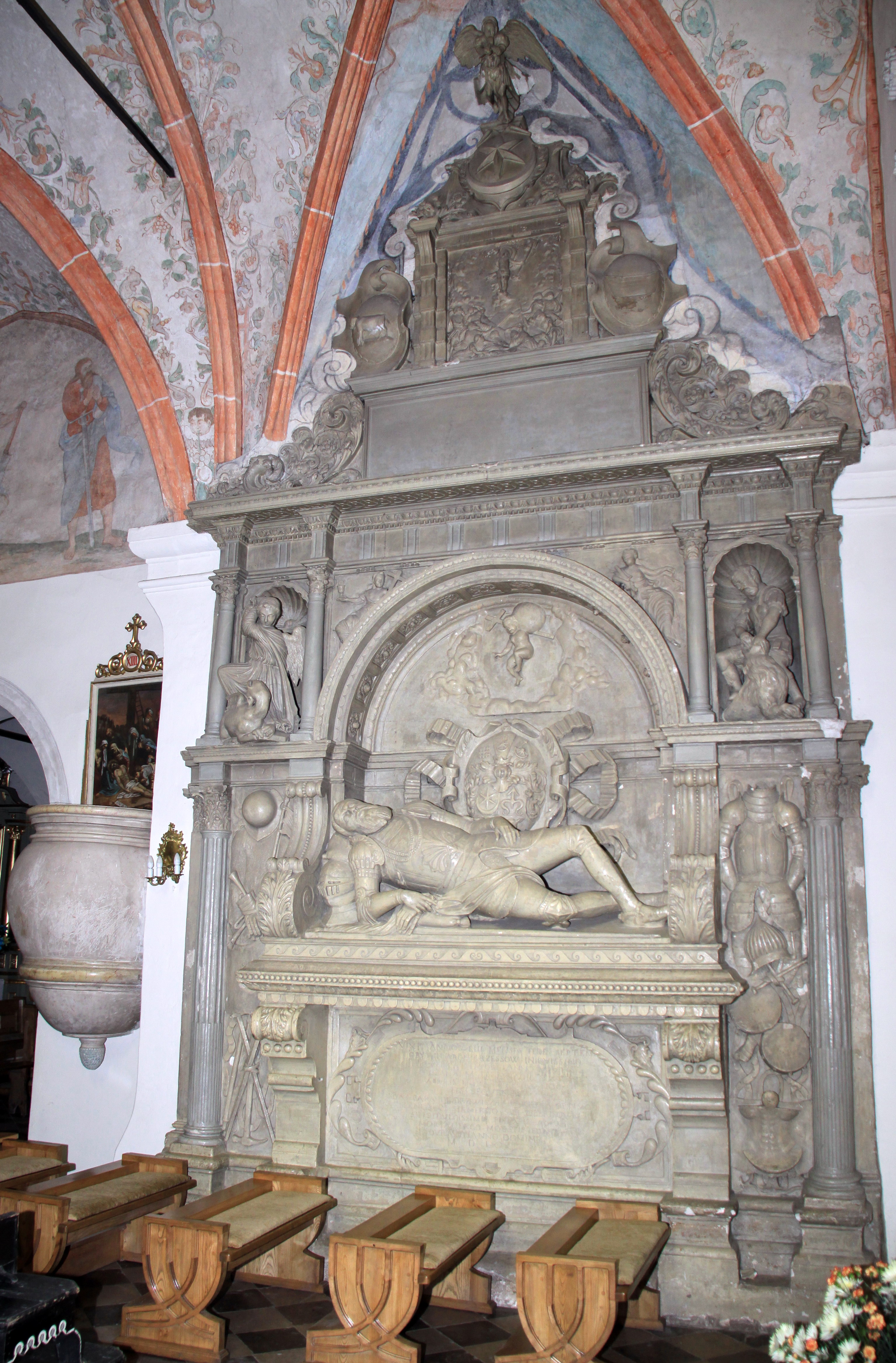 Chroberz, Church of the Assumption of Mary: the Renaissance tomb of the founder of the church, voivode of Sandomierz, Stanisław Tarnowski by Jan Michalowicz from Urzędów.